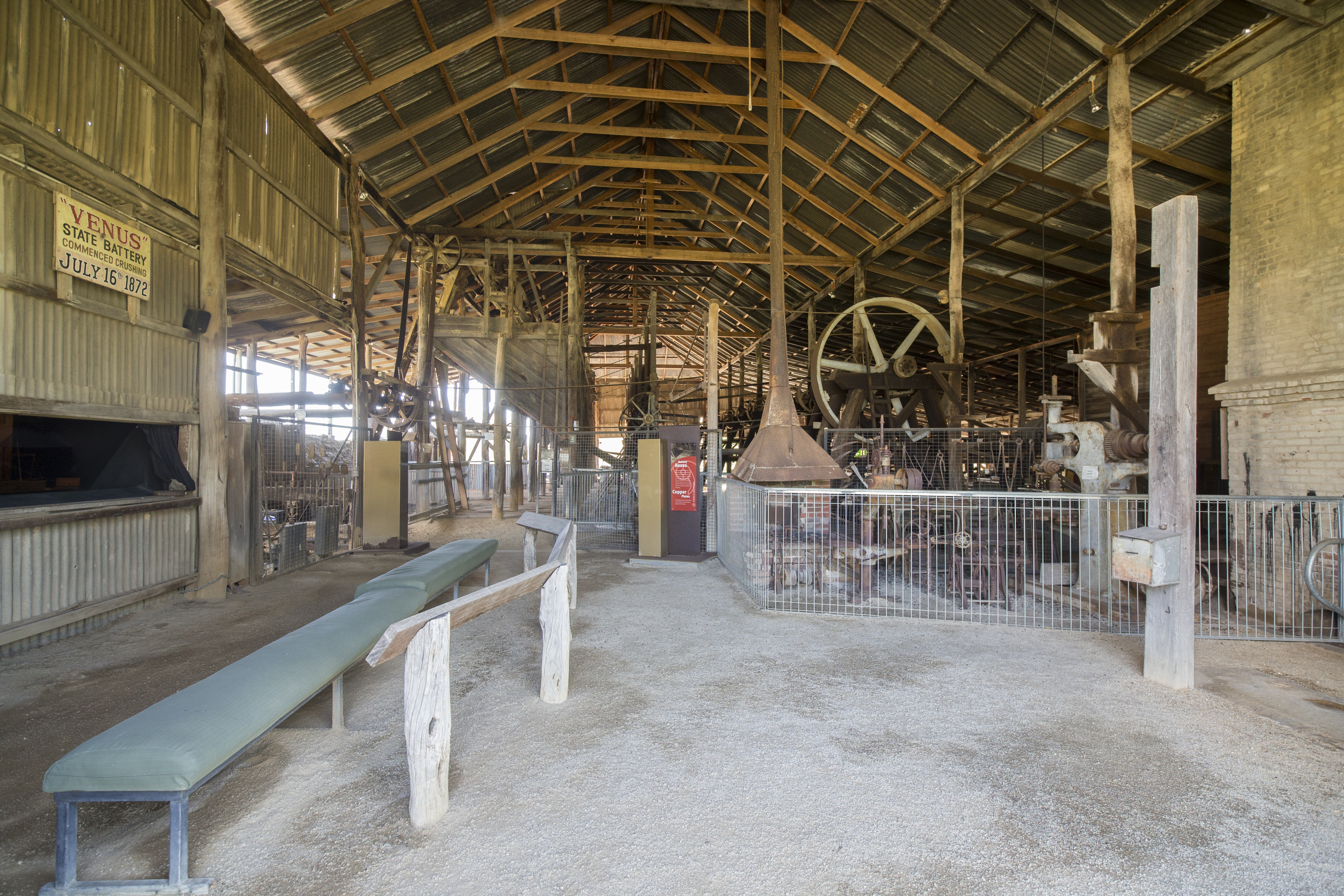 An old gold mill at Charters Towers. All machinery is still in place